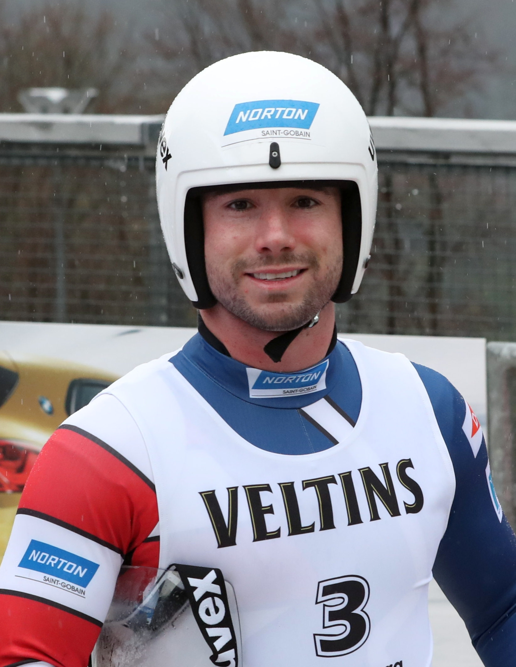 Doubles Nationscup race in Winterberg: Andrew Sherk